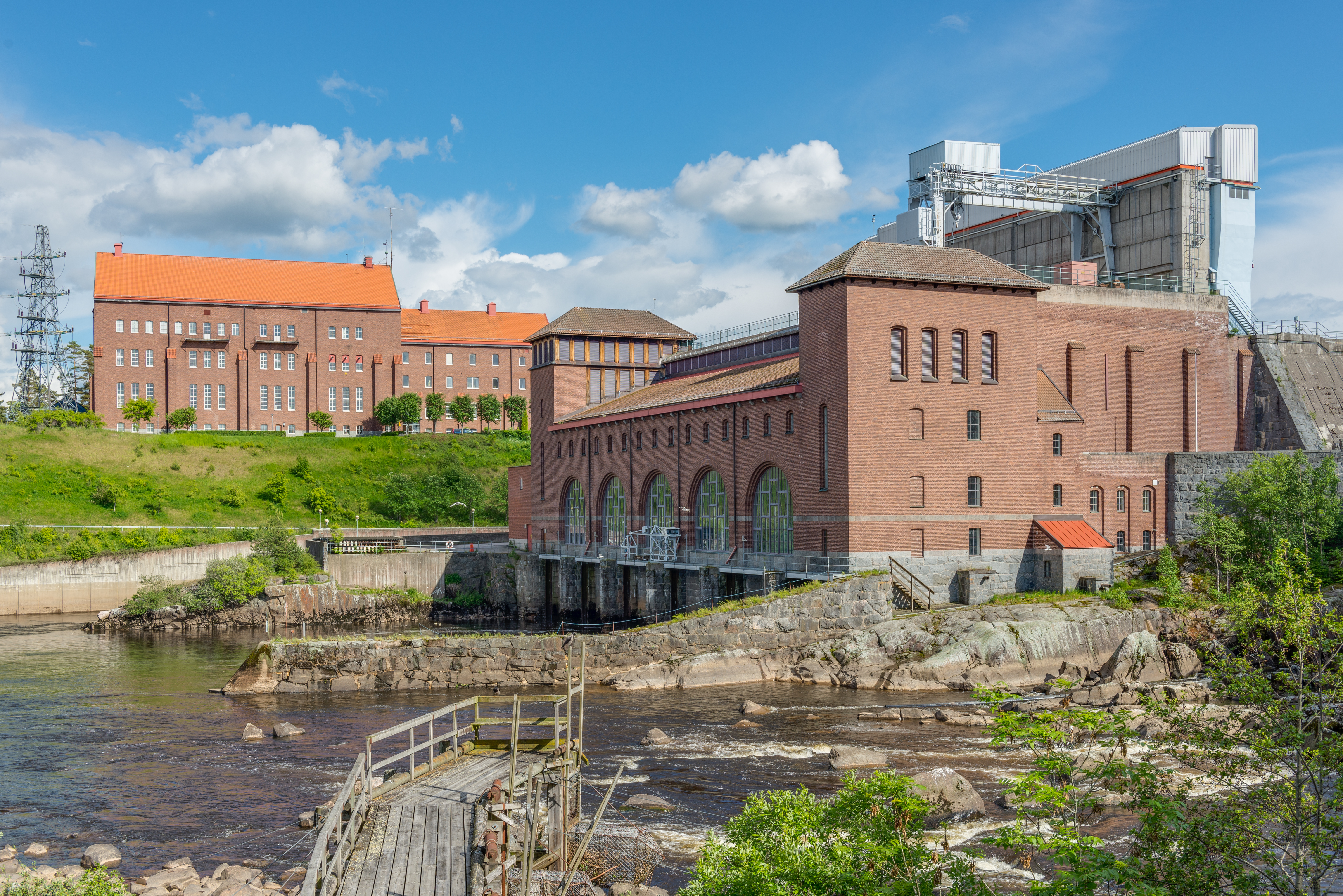 Älvkarleby hydroelectric power plant.